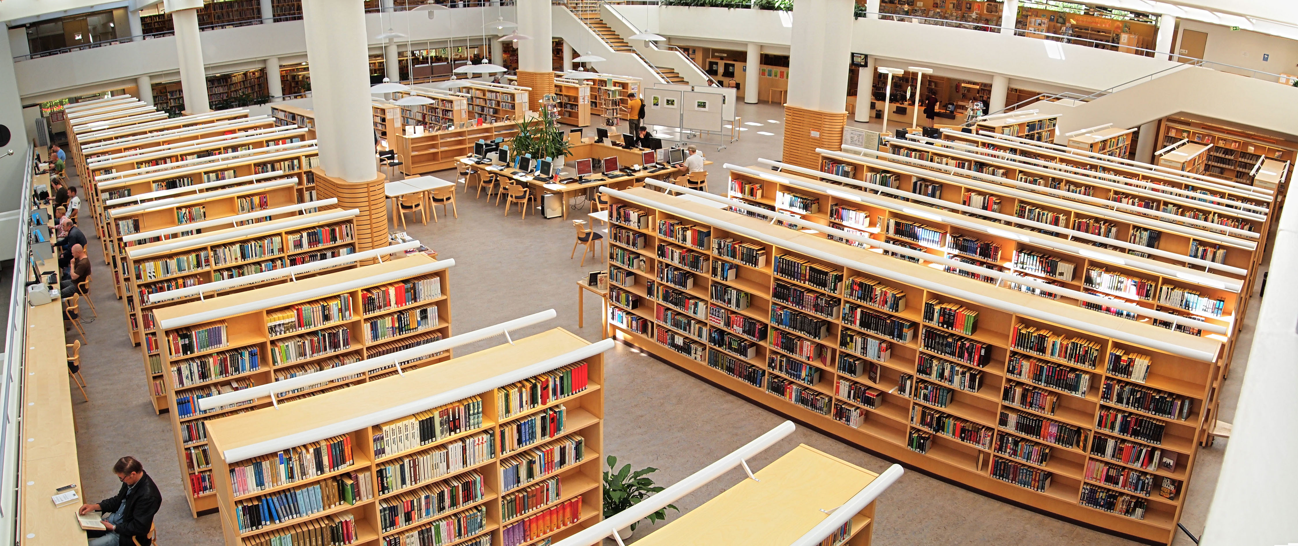 Inside the library of Jyväskylä.